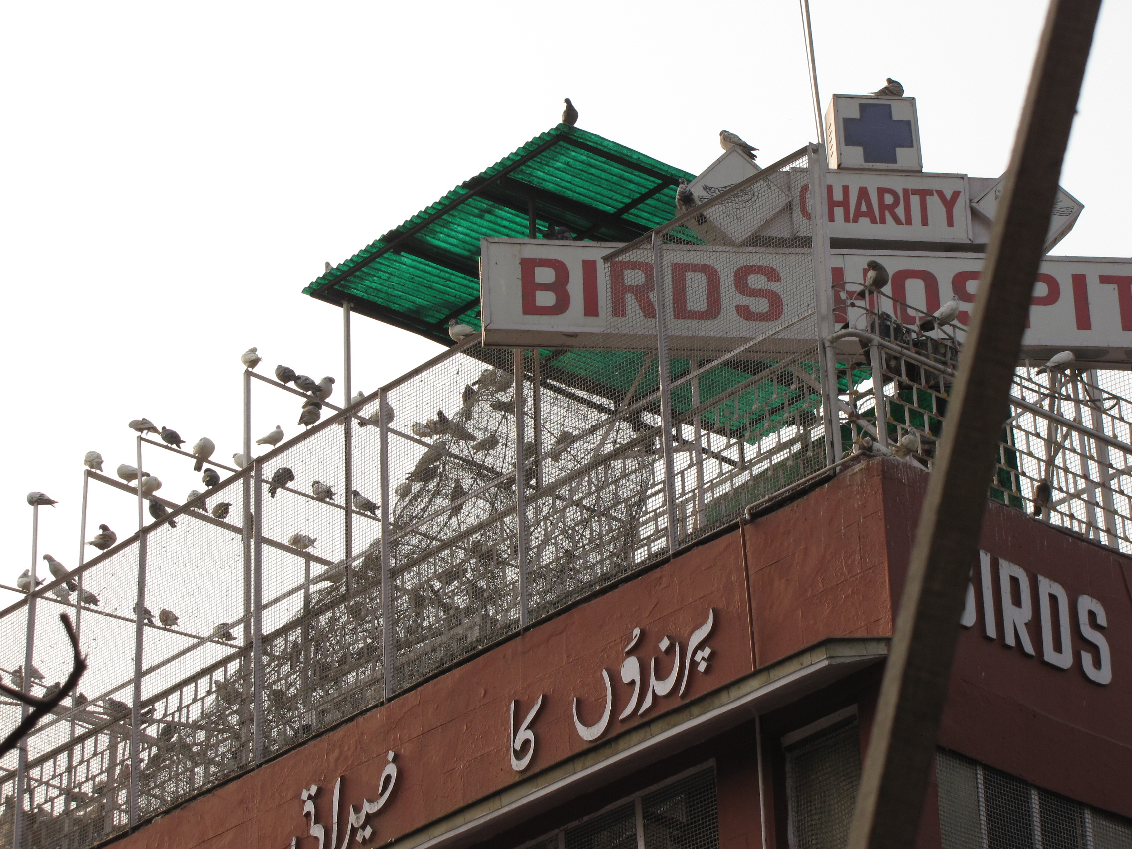 Delhi Chandni Chowk Bird Hospital